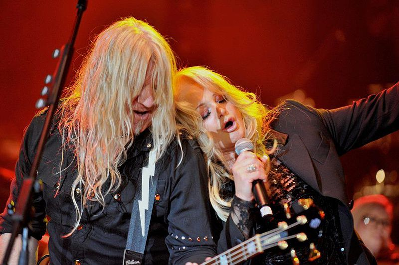 Bonnie Tyler performing at the S.Oliver Arena, Würzburg, Germany.